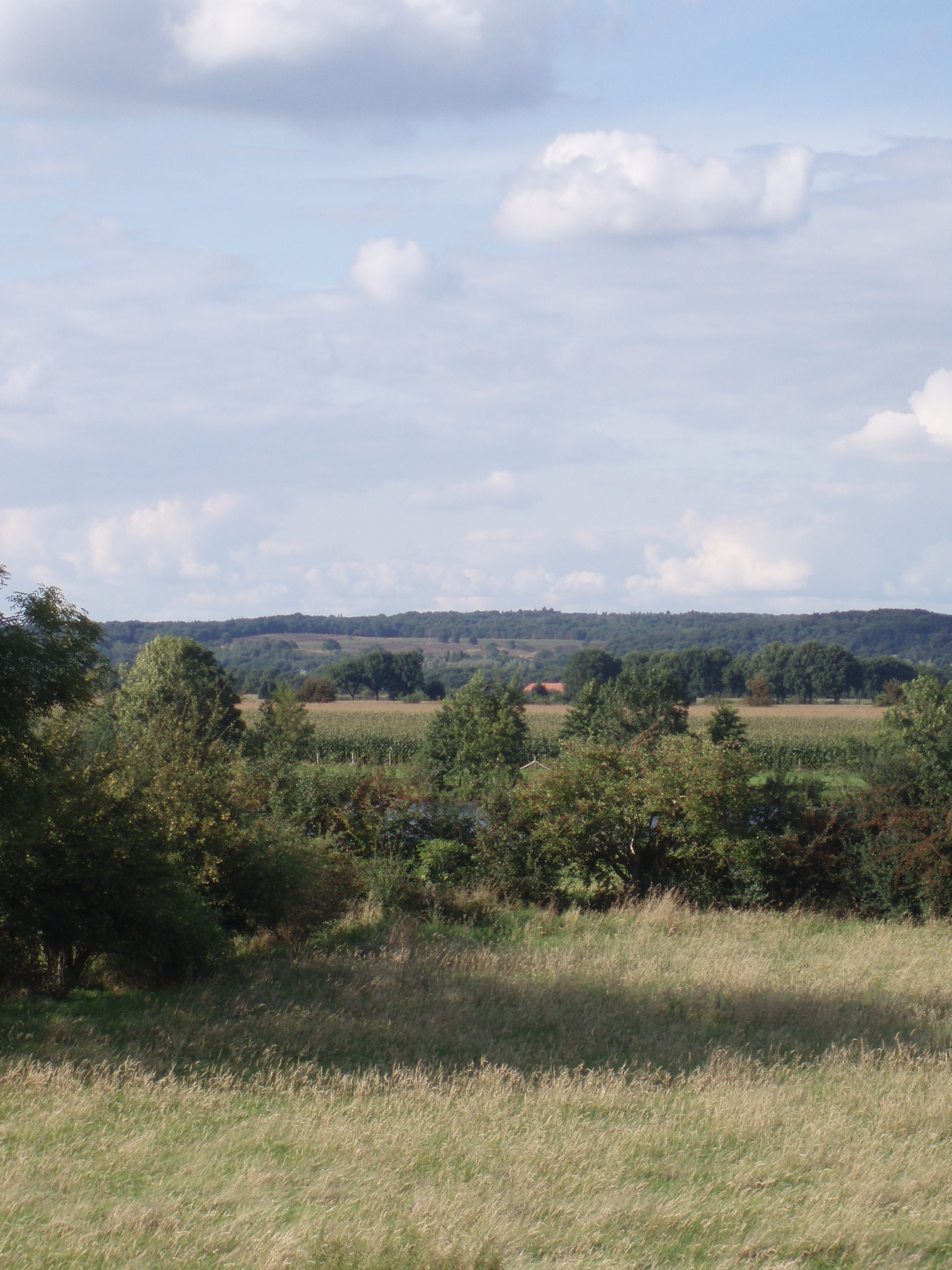 Mookerheide, seen from the other side of the Meuse River, Netherlands